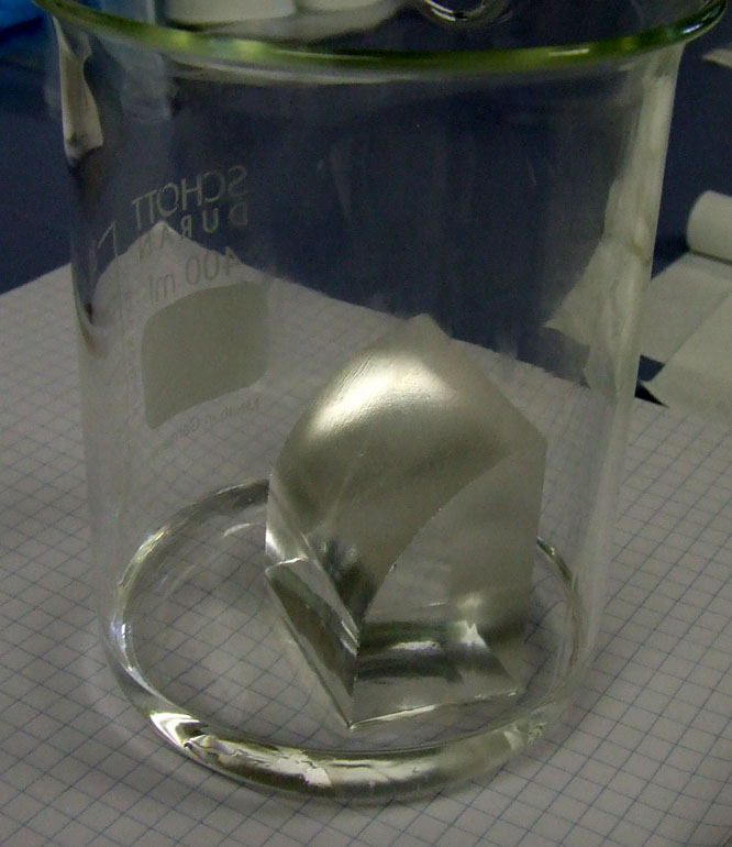 Single crystal of lithium fluoride, LiF, in a glass